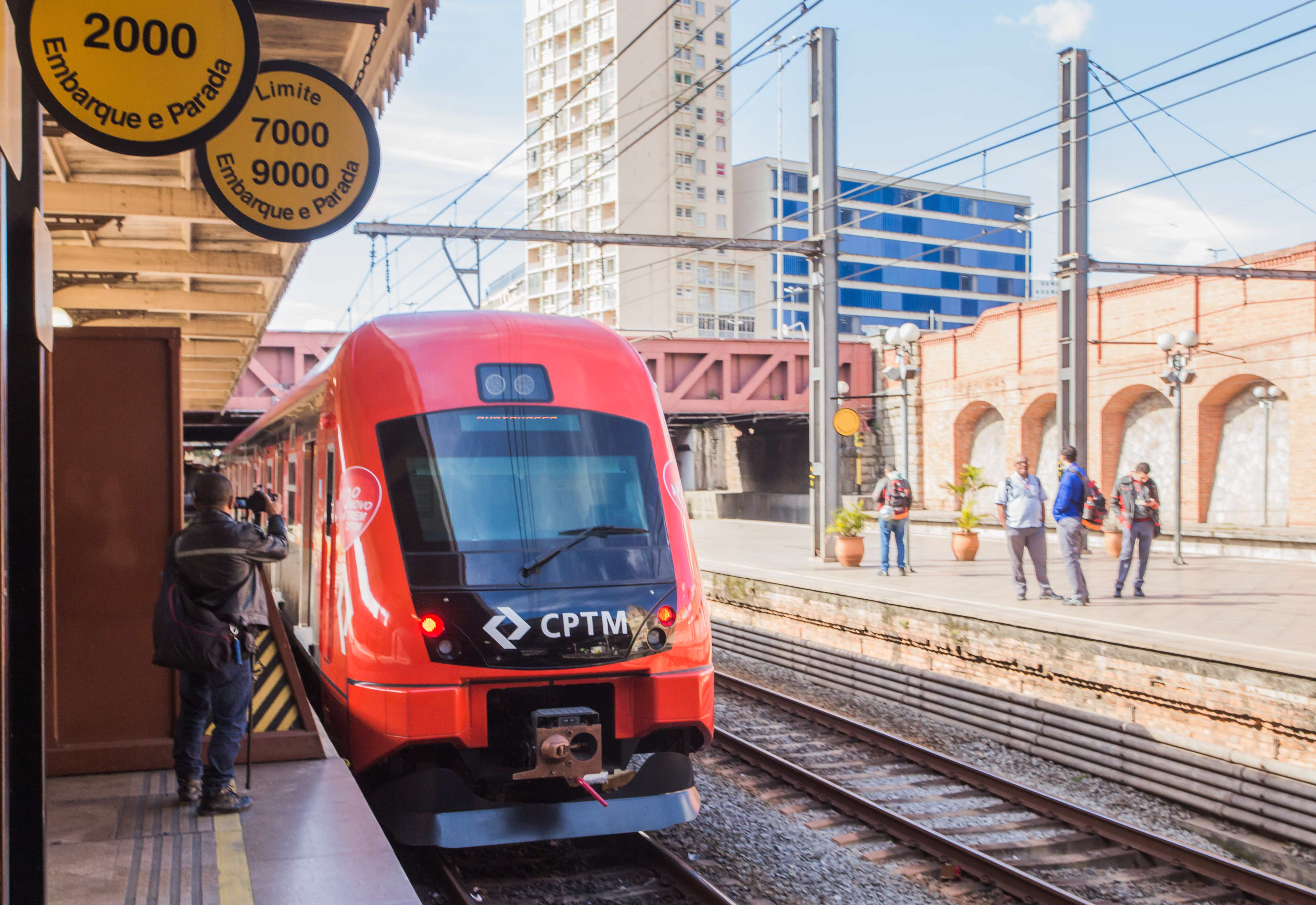 O Governador do Estado de São Paulo Geraldo Alckmin, participou da Entrega de 01 Trem da linha 11, CORAL e visitou a Exposição Ambulante de Jean Baptiste Debret em comemoração aos 25 anos da CPTM. Local: São Paulo/SP. Data: 04/07/2017. Foto: Alexandre Carvalho/A2img